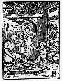 A page entitled "Der Tod holt das Kind" ("Death takes away the child") from the Totentanz by Hans Holbein the Younger, 1538. Image from [1].